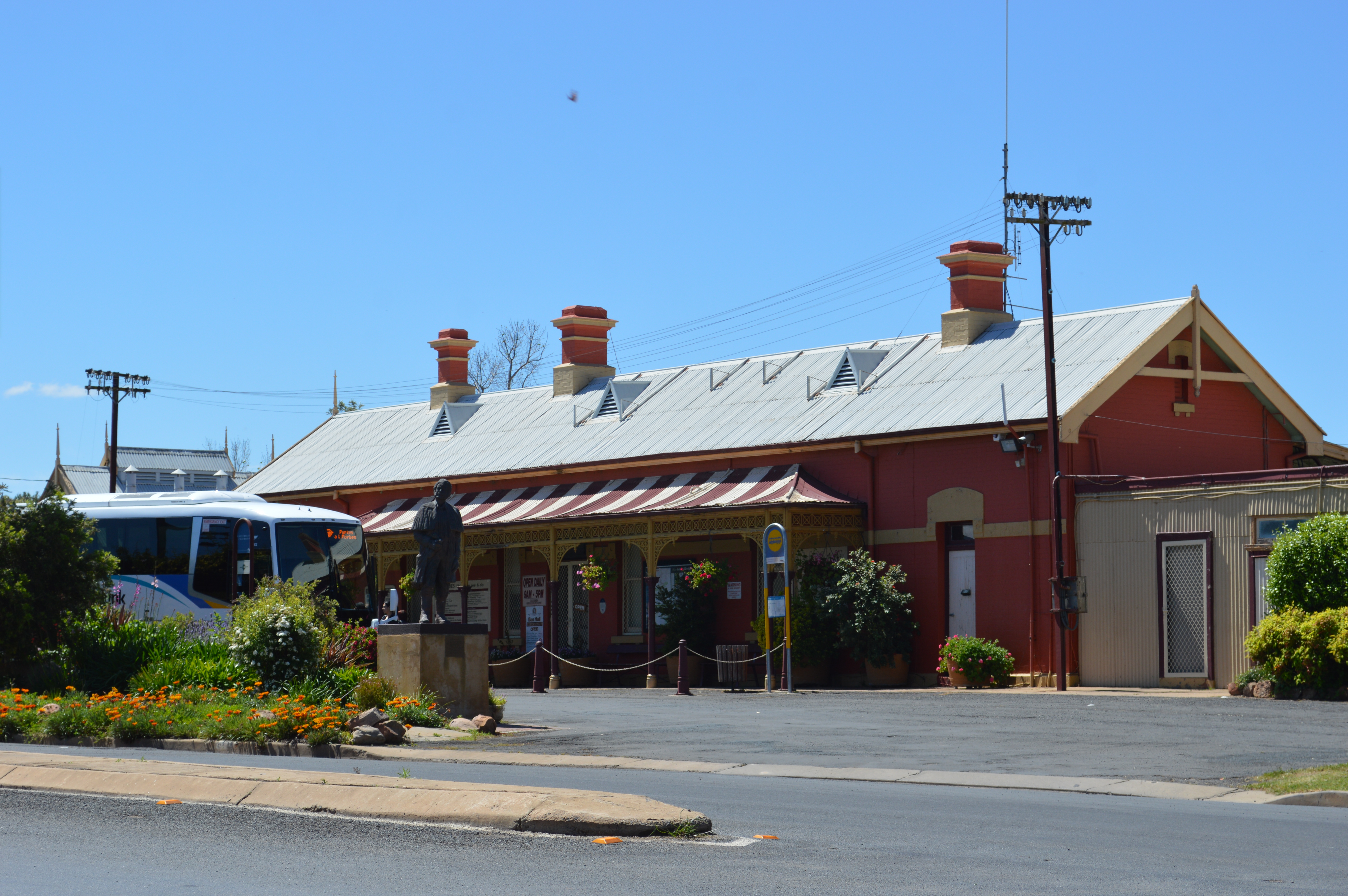 Railway station and statue of Ben Hall at Forbes, New South Wales